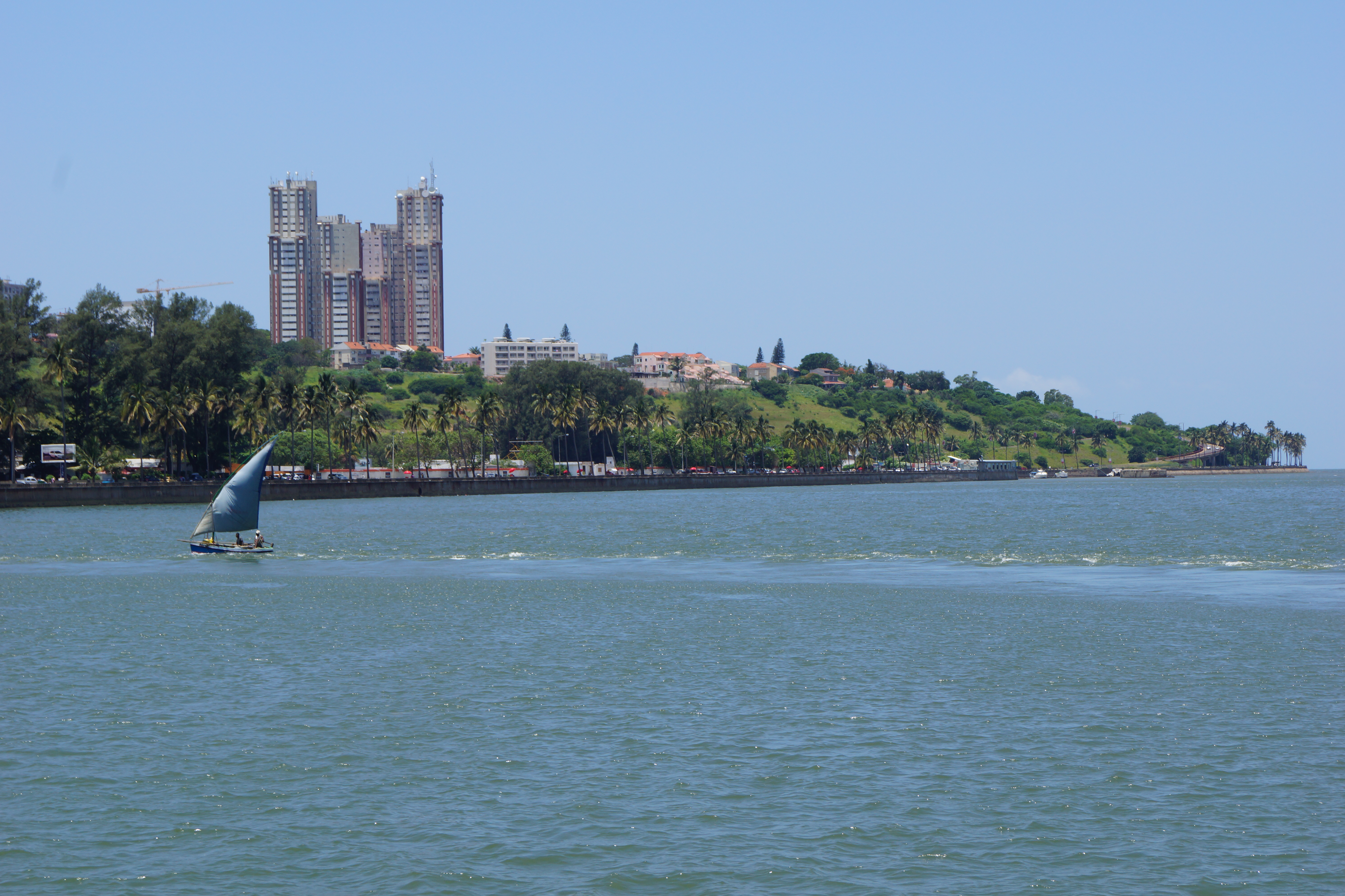 The "Red Towers" in Maputo, Mozambique